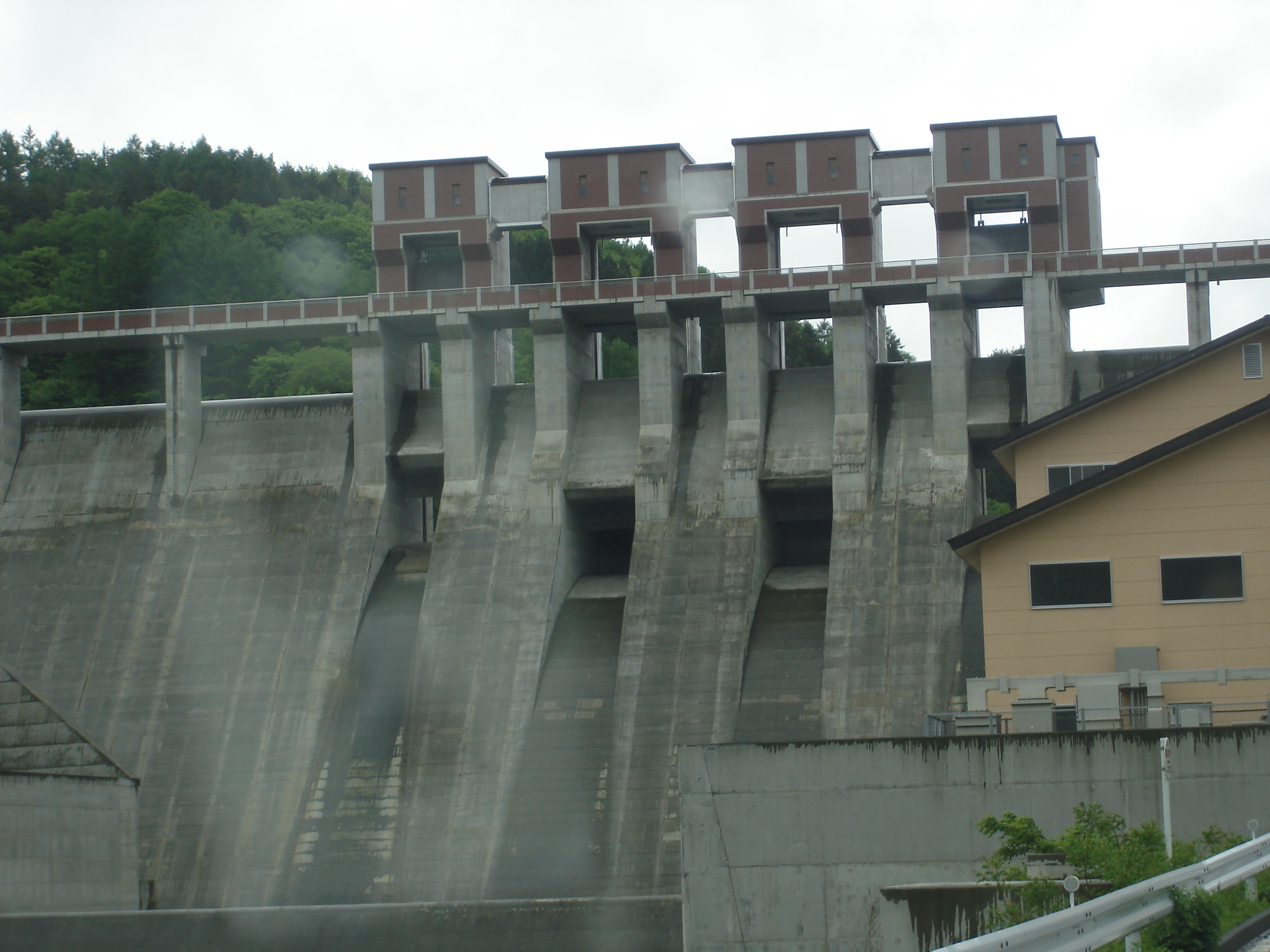 This is Yomasarhi dam Hachinohe,Aomori,Japan